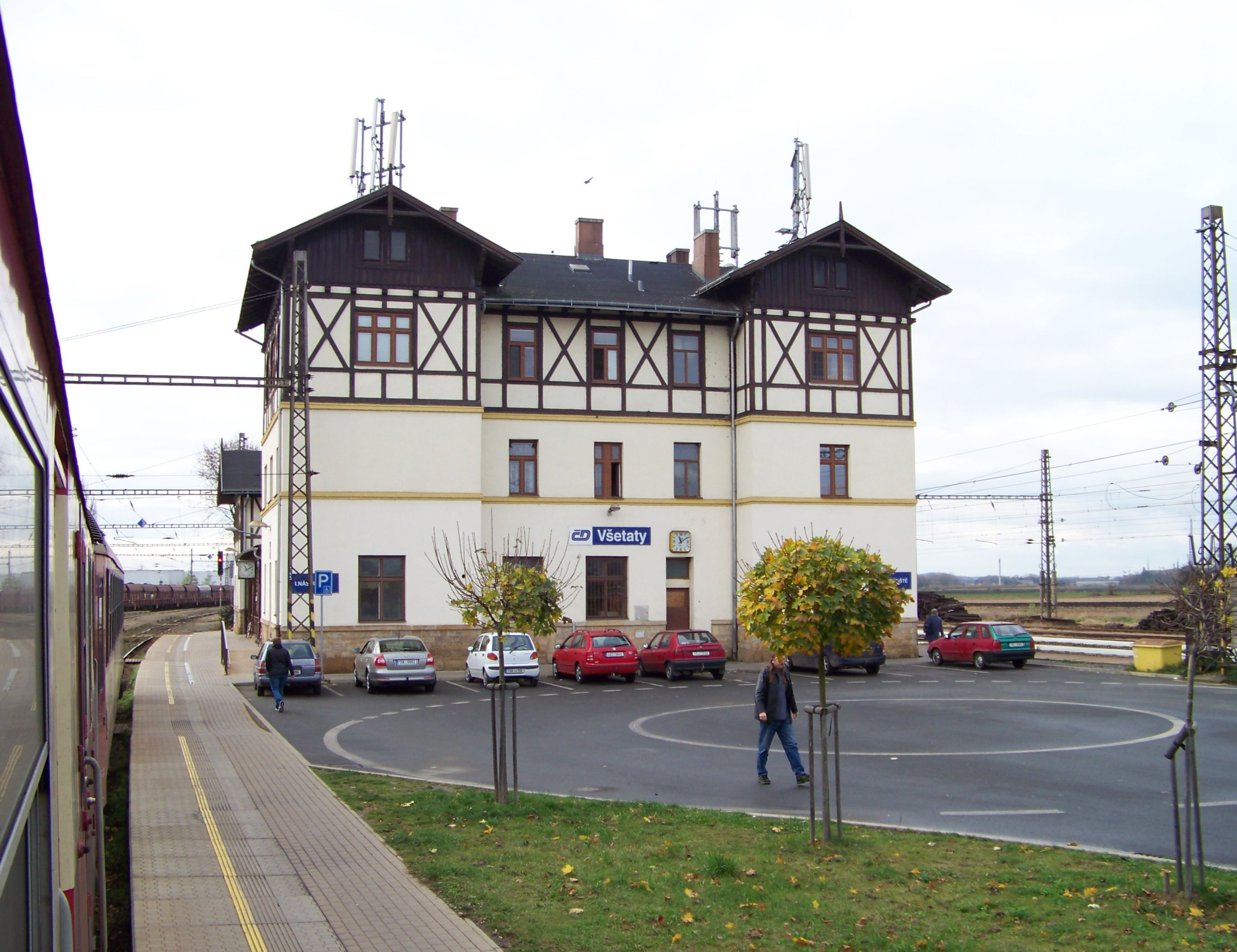 Všetaty, Mělník District, Central Bohemian Region, Czech Republic. Train station Všetaty. - OpenStreetMap (Info)